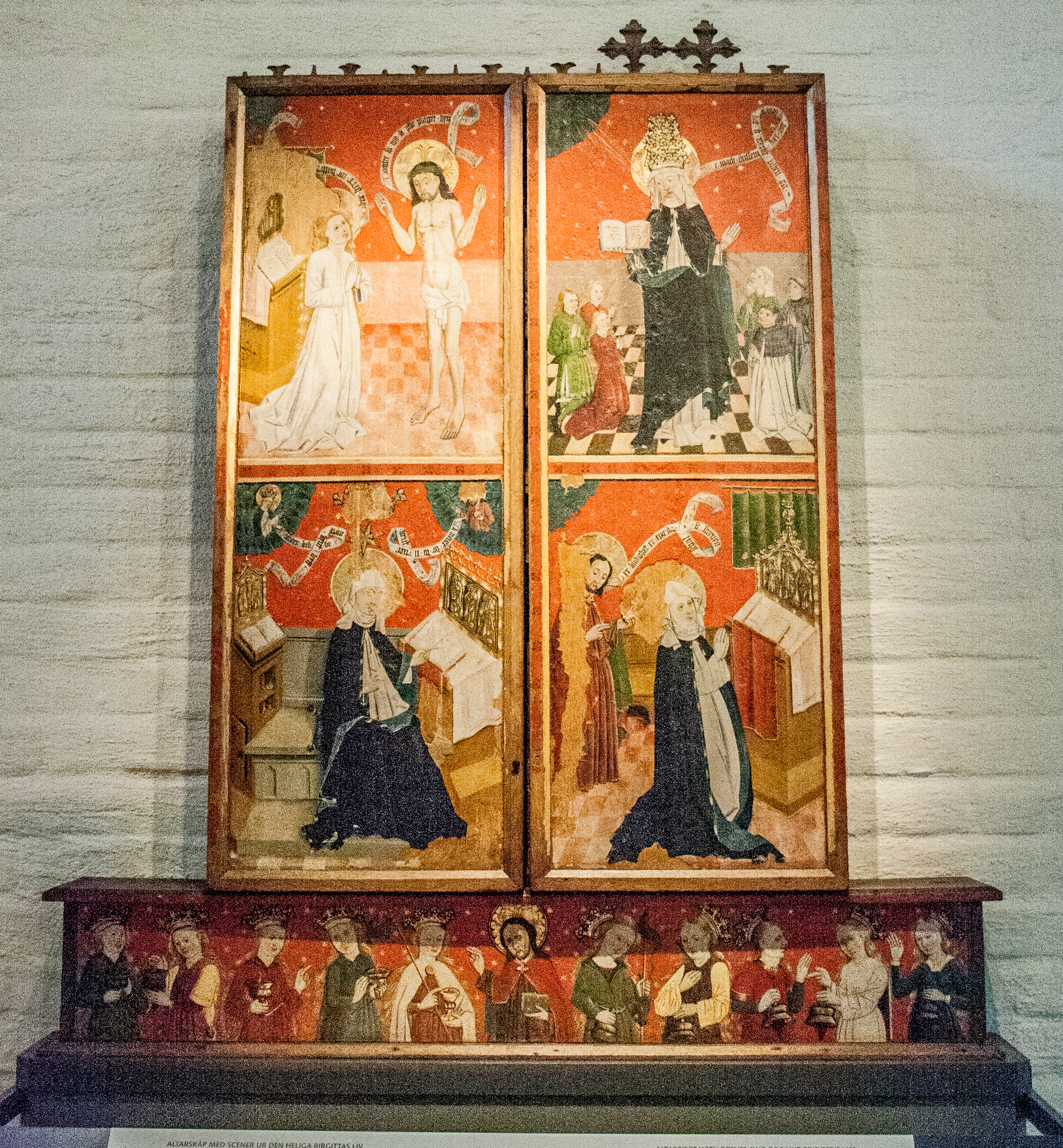 Altapiece with scenes from Saint Bridget's life